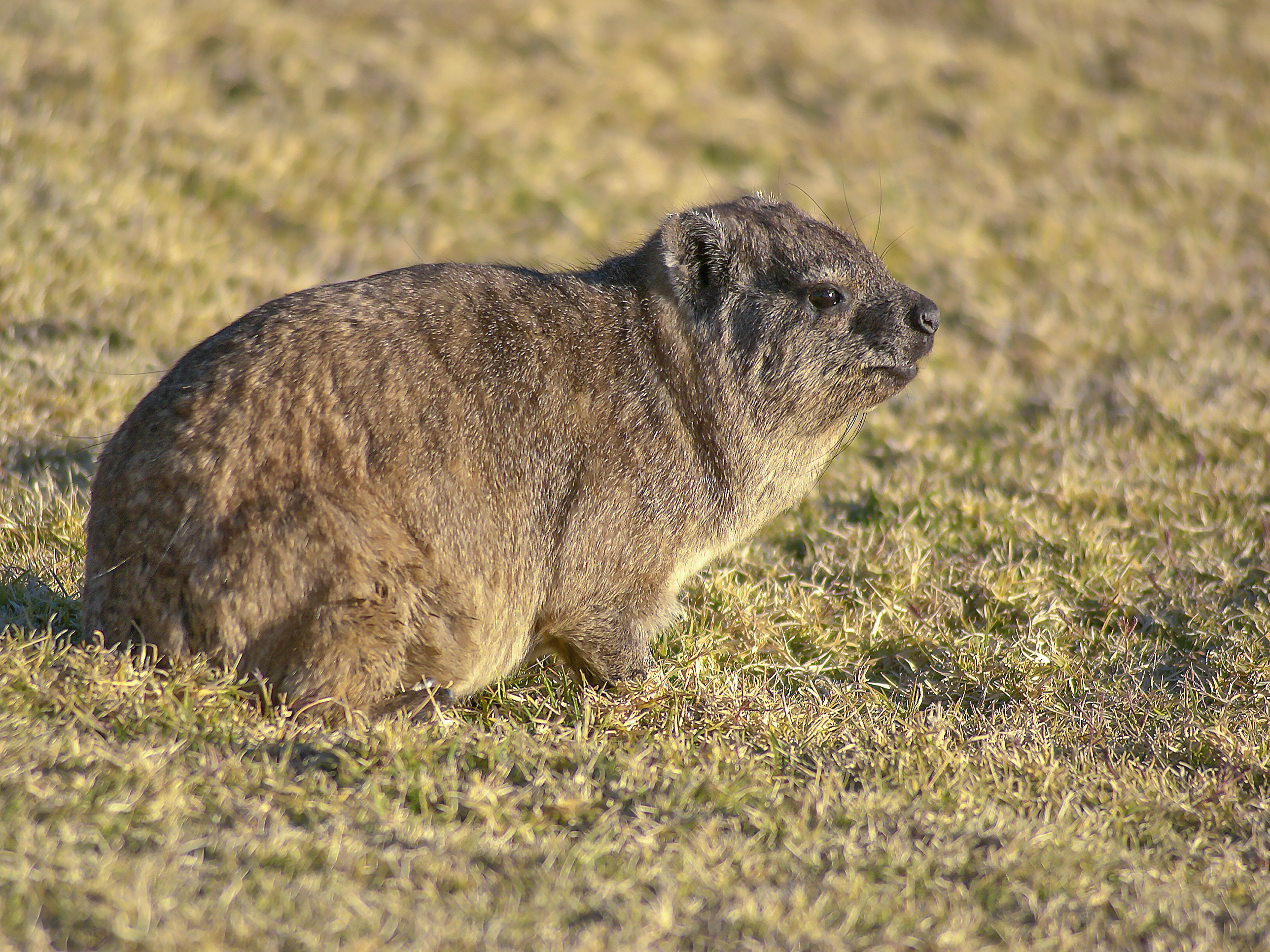 Cape Hyrax at Hardap Dam, Namibia.